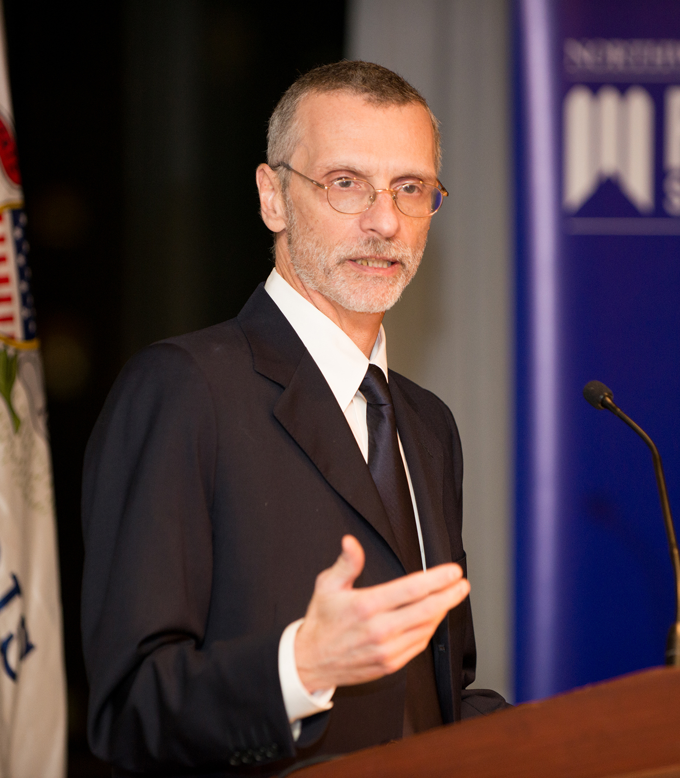 David Gius giving a speech at a Feinberg School of Medicine event